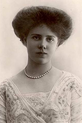 Her Highness Princess Maud of Fife, Countess of Southesk